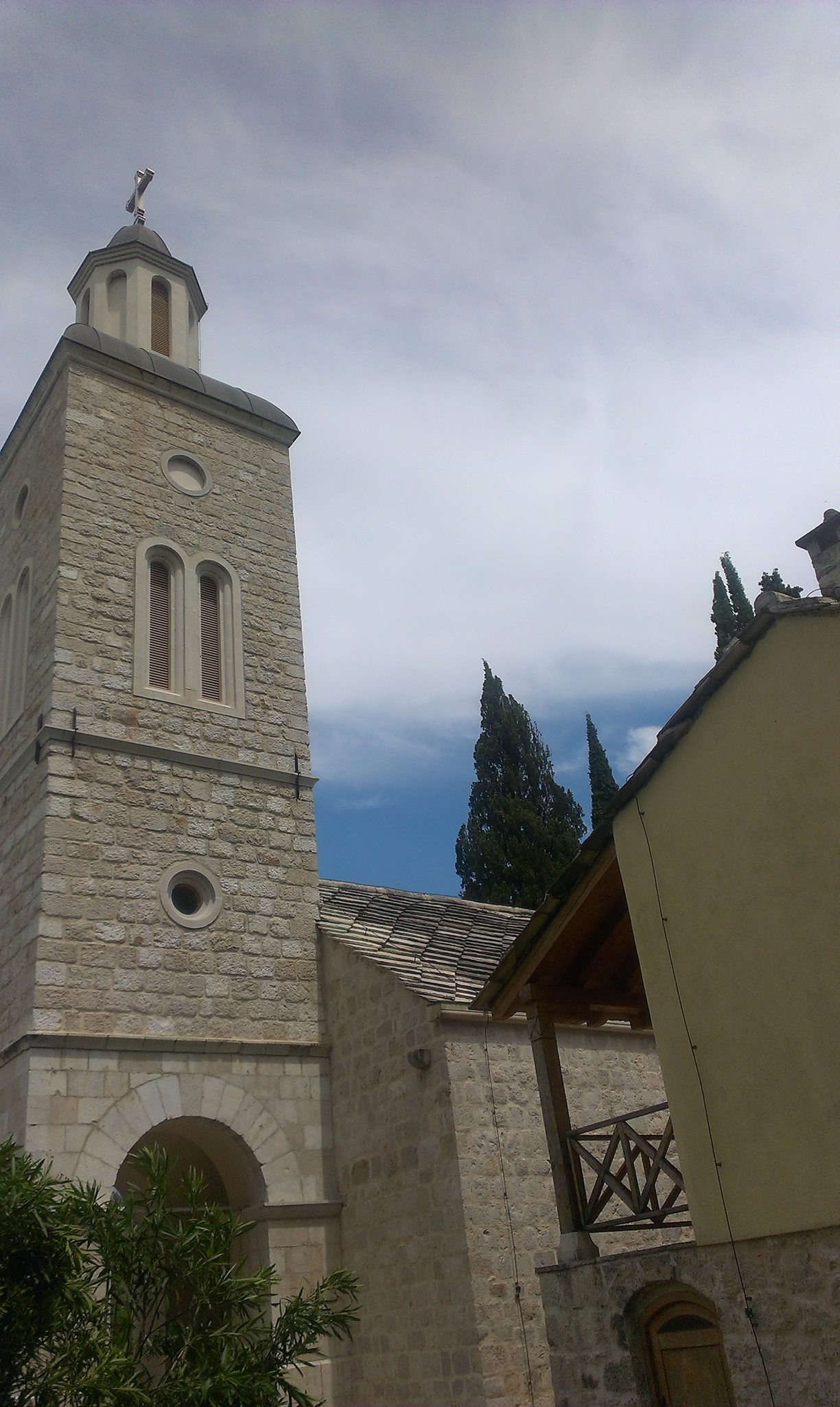 Žitomislić Monastery in Bosnia and Herzegovina